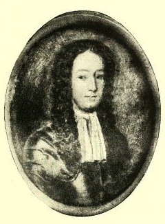 Major General James Ferguson of Kinmundy